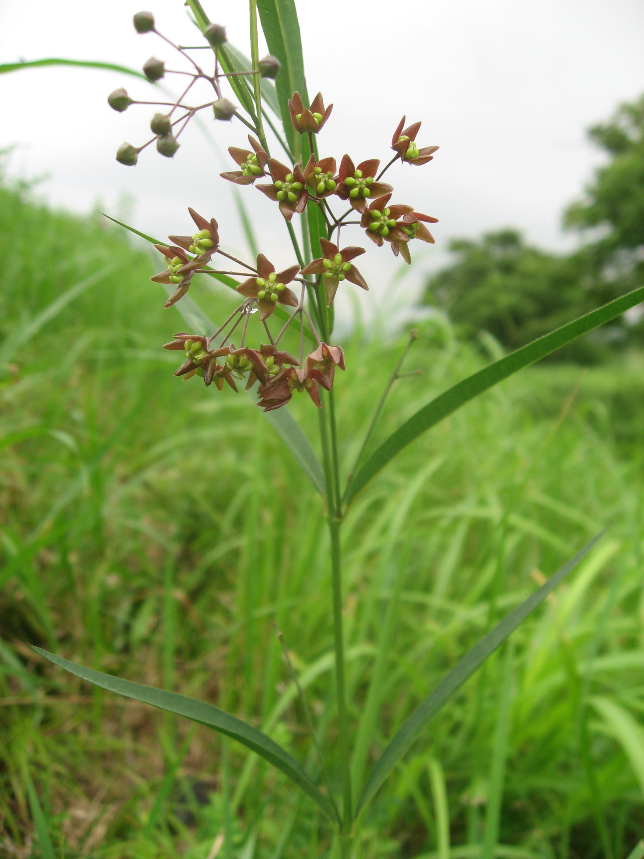 Vincetoxicum pycnostelma, Aizu area, Fukushima pref., Japan